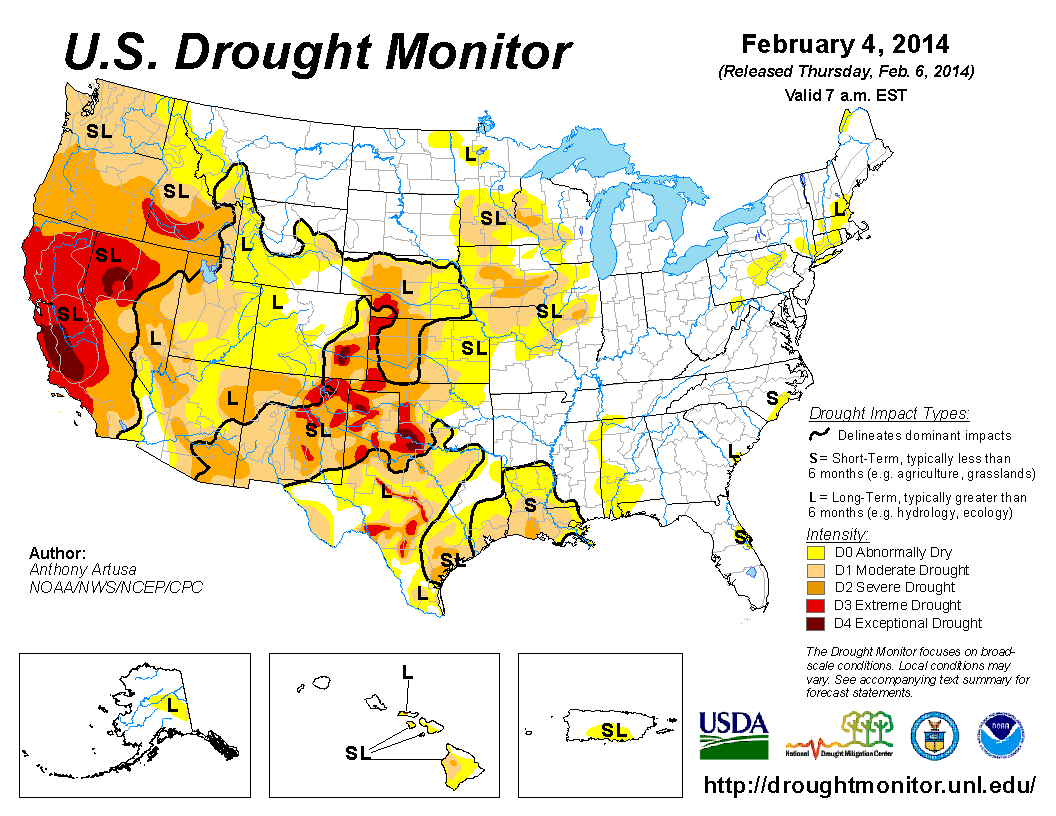 This is a copy of the United States drought monitor from February 4, 2014.